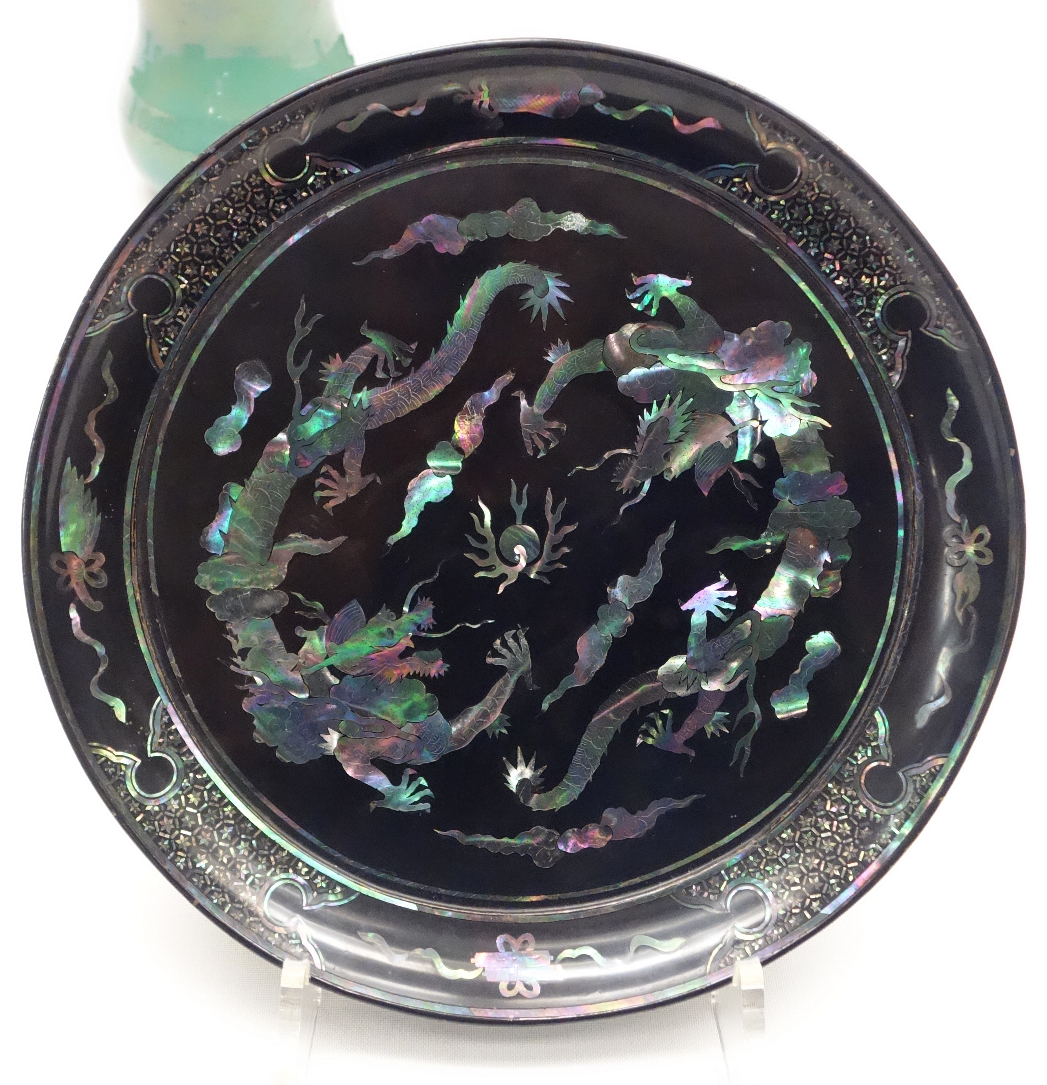 Exhibit in the Tokyo National Museum, Tokyo, Japan. This artwork is old enough so that it is in the public domain.